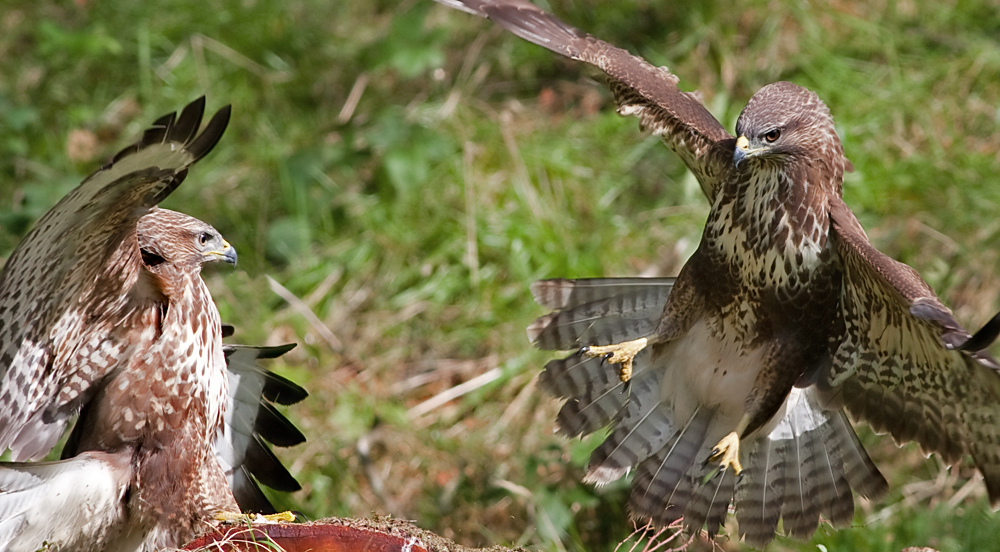 Had a most enjoyable day with Alan. Target was to photograph the buzzards that have been coming over the past few days. We were privileged to witness two birds playing with each other...but there was three birds at any one time....the sun even came out for us!